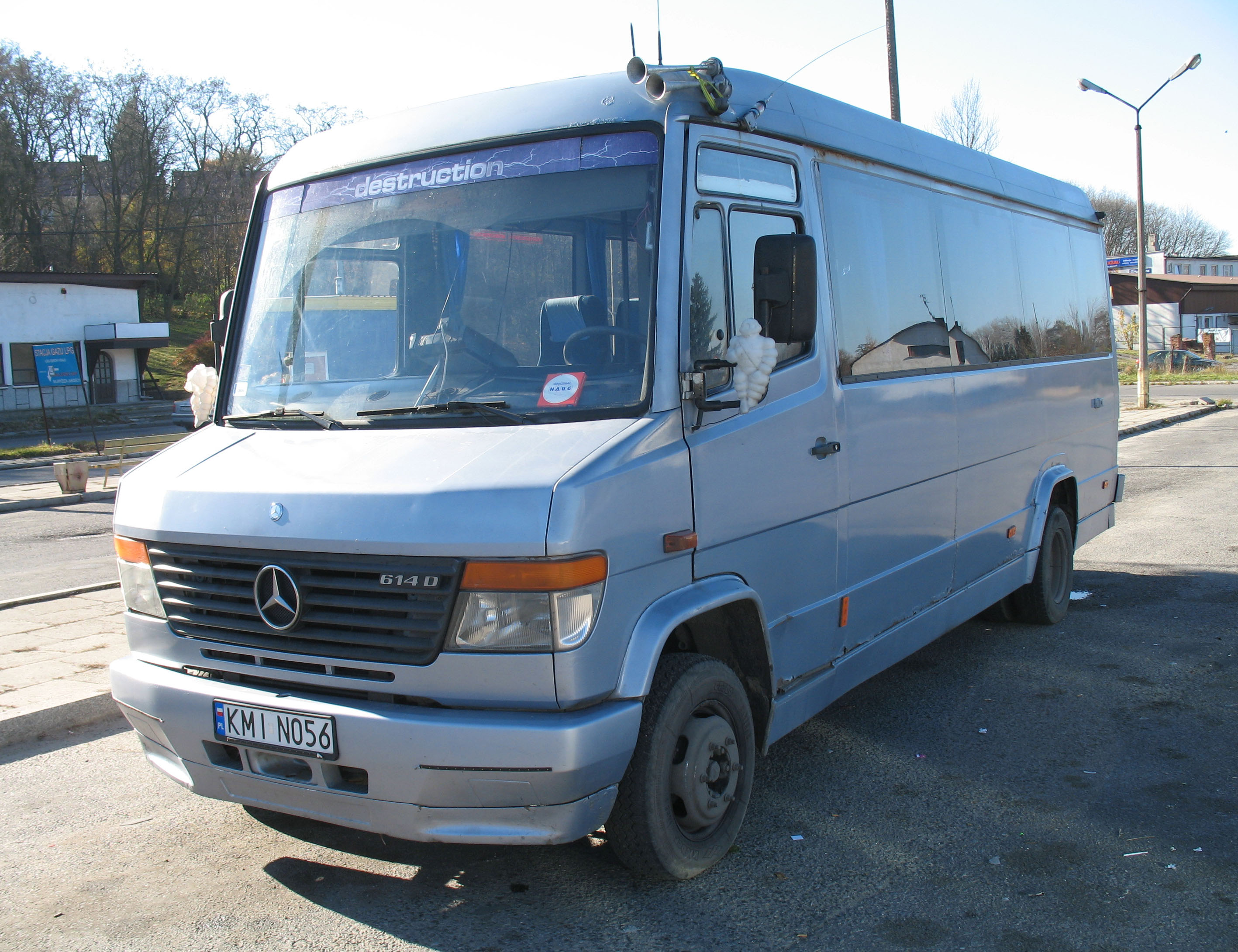 Mercedes-Benz Vario 614D bus in Miechów, Poland. Operator from Powiat miechowski in Poland.